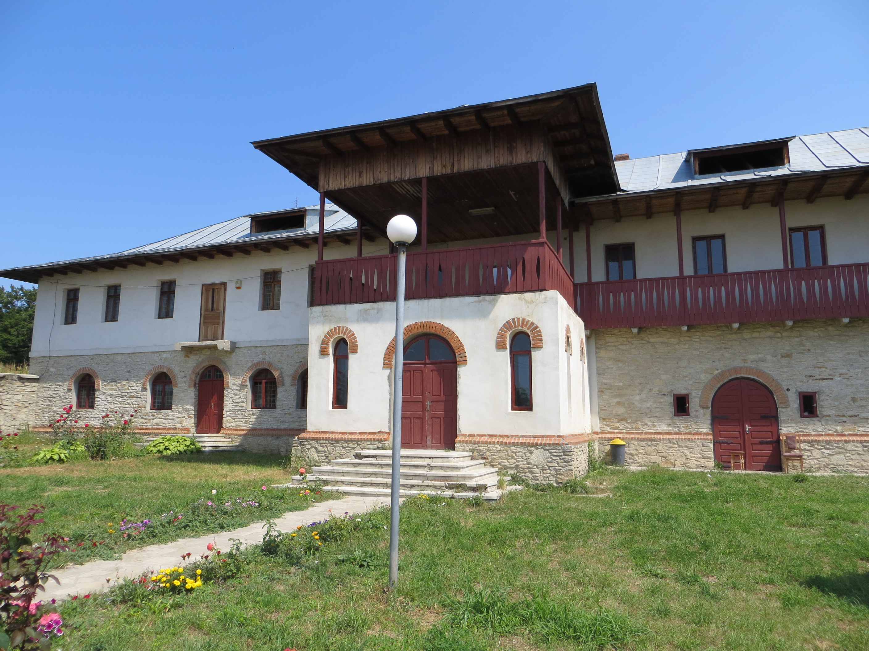 Teodoreni Monastery in Burdujeni, Suceava - the monastery cells.